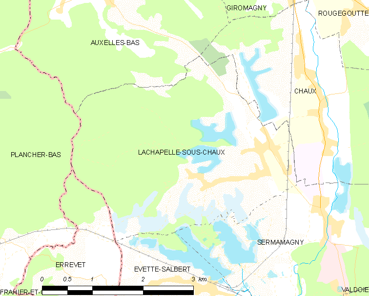 Map of French municipality Lachapelle-sous-Chaux